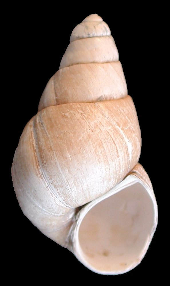 Viviparus glacialis from Borehole Rosmalen, Netherlands; Pleistocene: Late Tiglian